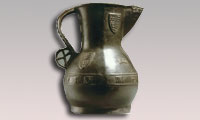 Wenlock jug, ca 1400, England, photo of item in Luton Museum